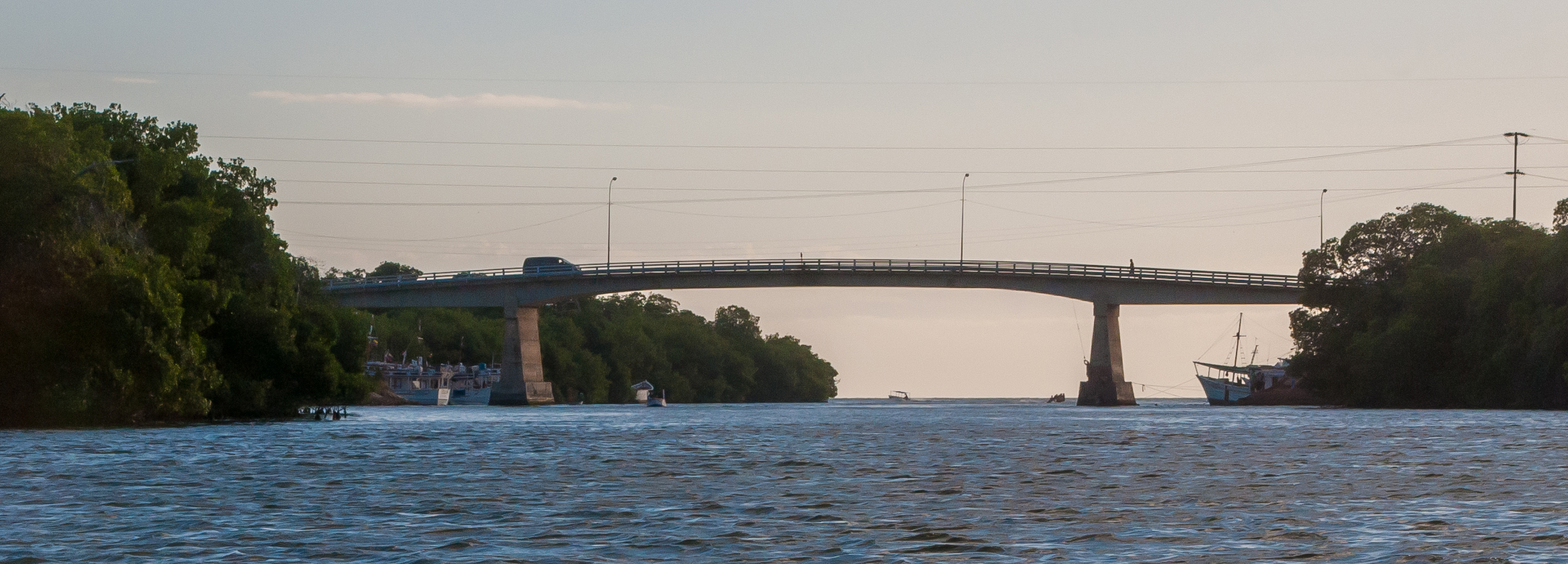 Bridge Over La Restinga Lagoon. The March 17, 1963 was inaugurated by Monchito Borra the bridge linking the Macanao peninsula and Margarita island, built during the government of Don Antonio Reina Antoni, then outgoing Governor[1].